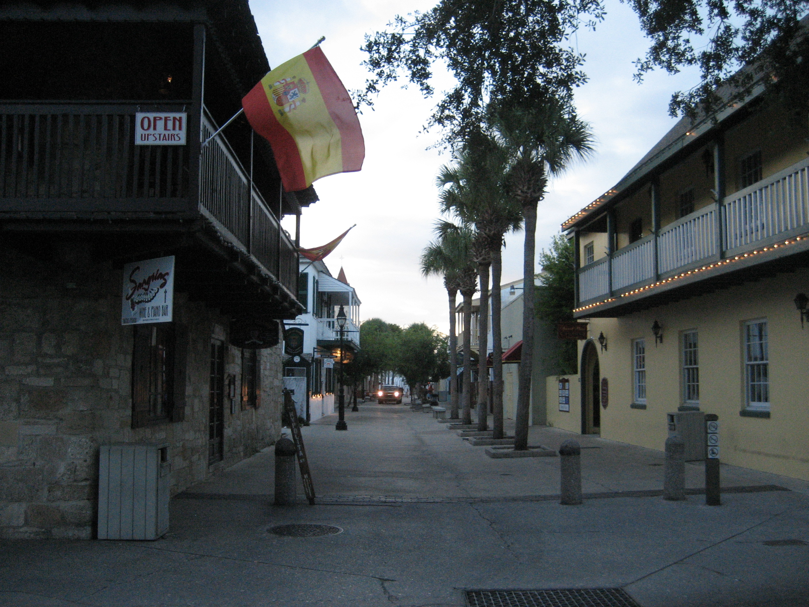 St. Augustine, Florida. View in old historic district.